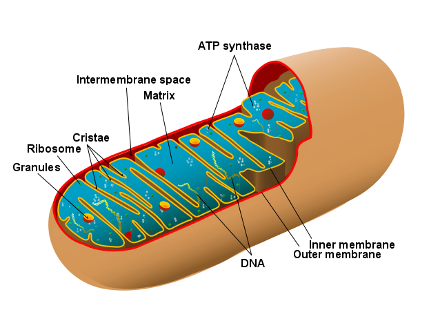 Capitalization corrected version of